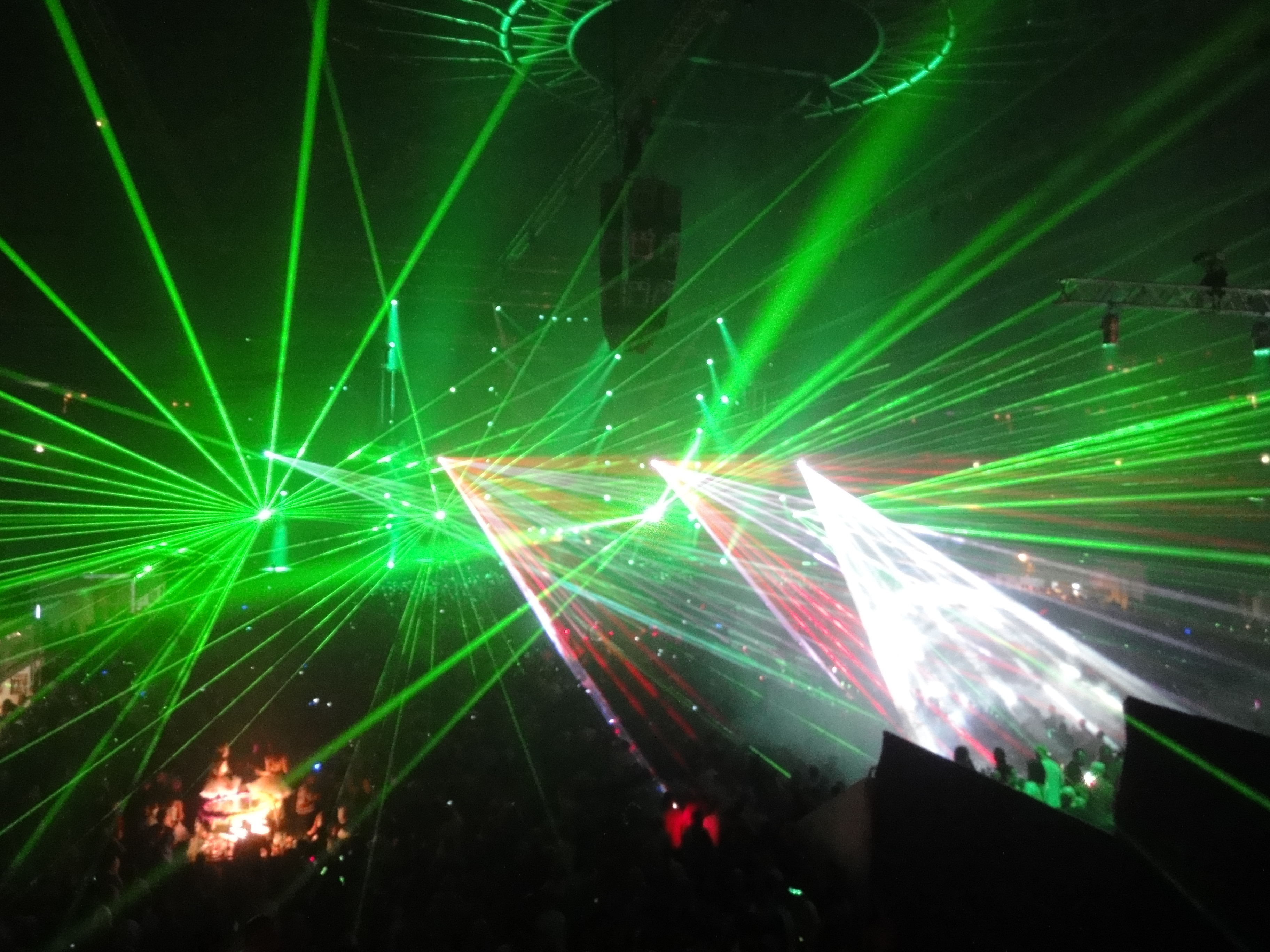 Transmission 2010 Praha - o2 Arena